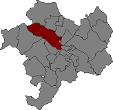 Location of Font-rubí in Alt Penedès